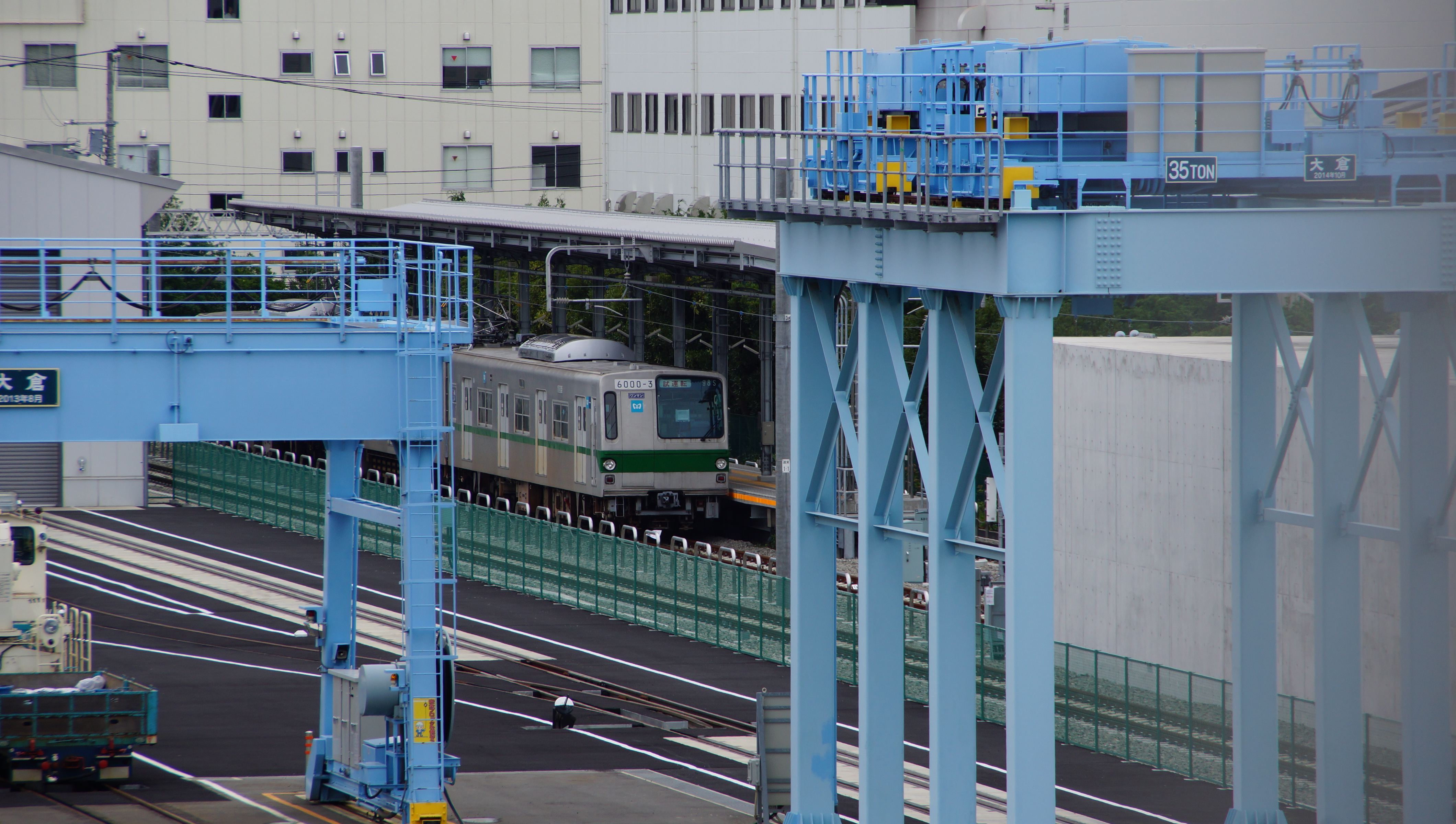 Tokyo Metro 3-car 6000 series EMU set 6000-1 at the staff training centre next to Shin-Kiba Depot in Tokyo